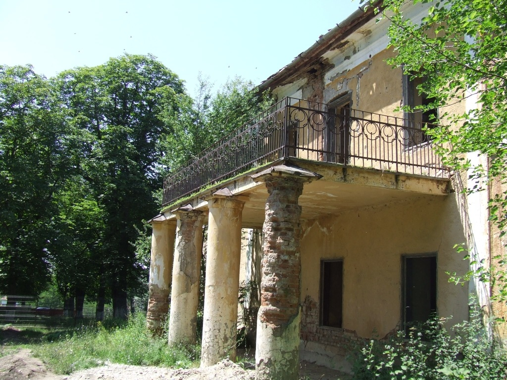 Beldy Castle in Geaca, Cluj County, Romania